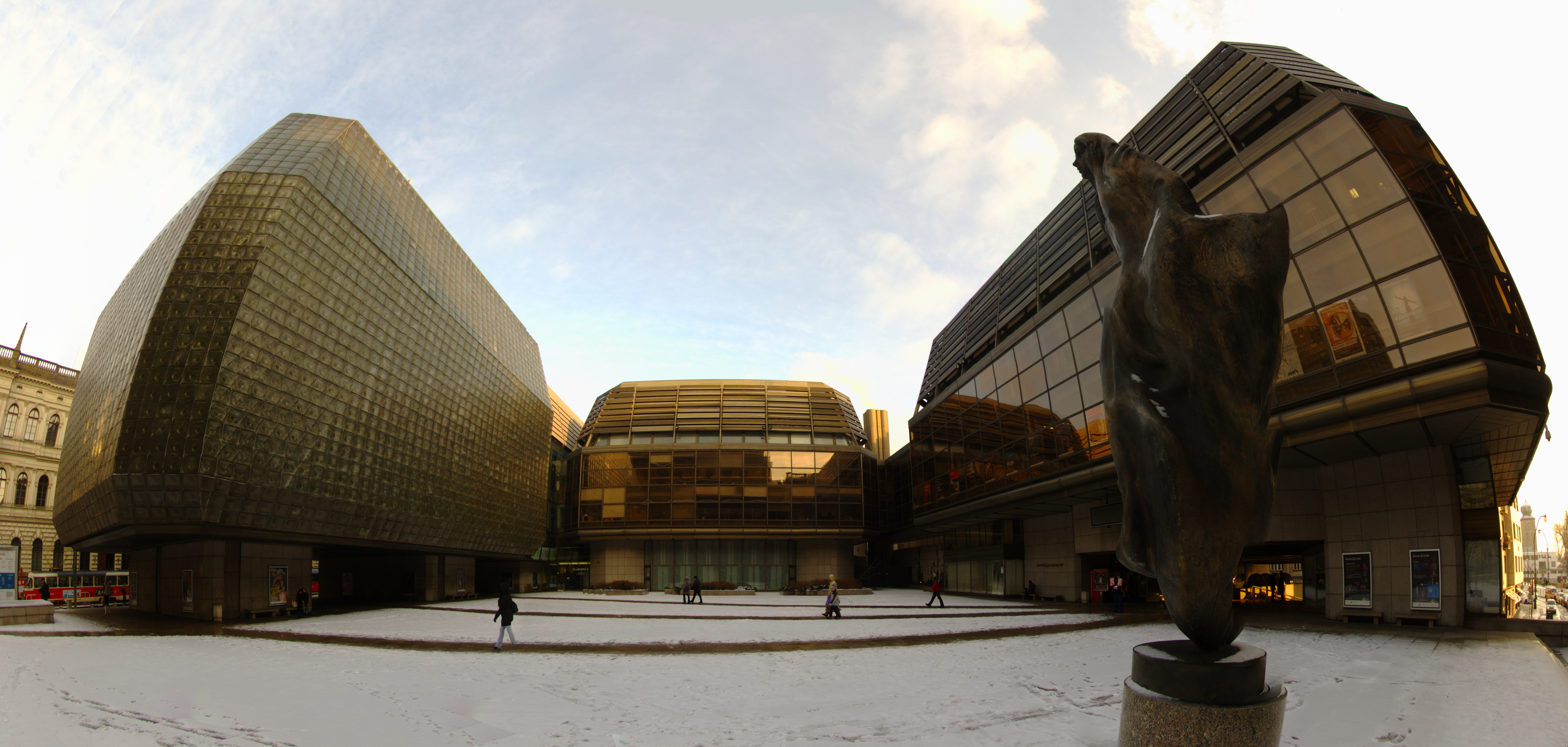 Panoramic view of Laterna Magika buildings seen from the side of old czech National Theatre building close to Vltava Riverbank, Prague, CZ